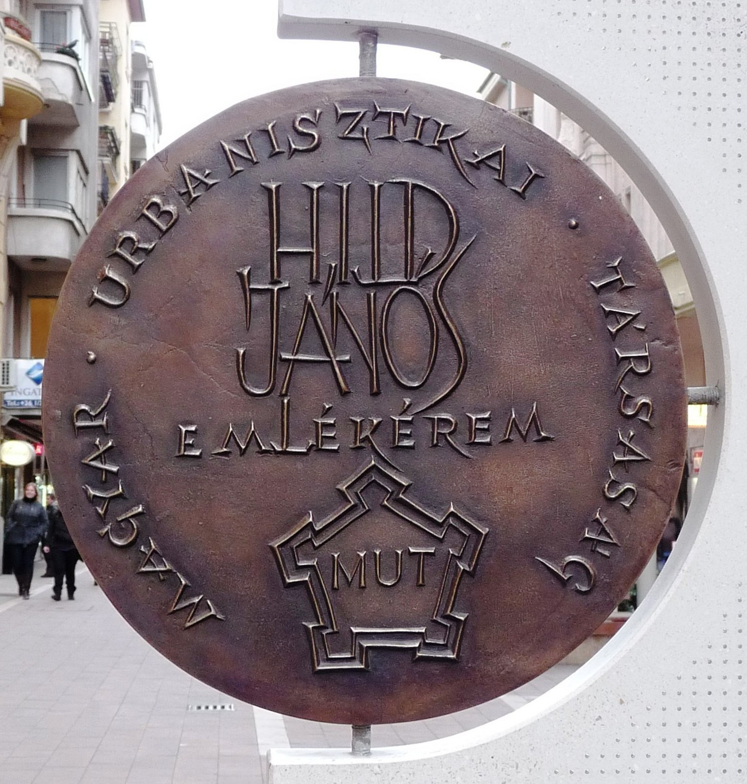 Médaillon of the Hild János Award of Budapest District XIII. (obverse) (Budapest, District XIII, Hollán Ernő Street)